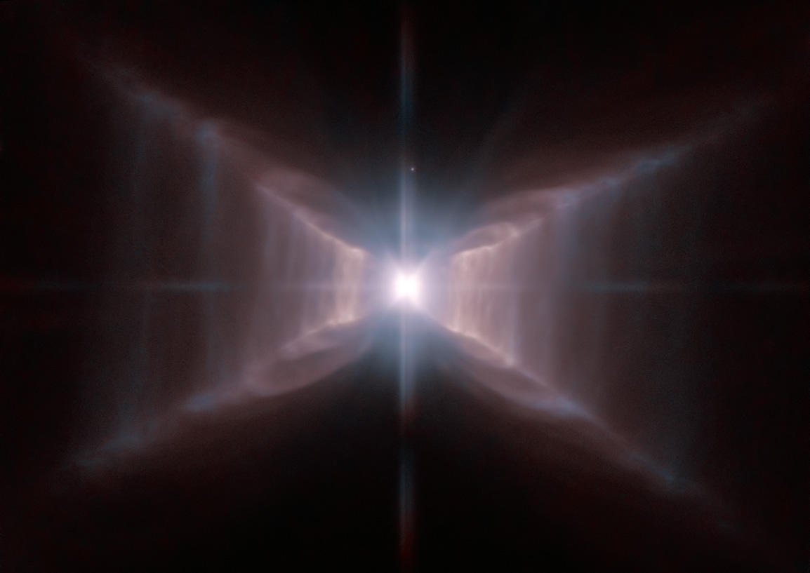 The star HD 44179 is surrounded by an extraordinary structure known as the Red Rectangle. It acquired its moniker because of its shape and its apparent colour when seen in early images from Earth. This strikingly detailed new Hubble image reveals how, when seen from space, the nebula, rather than being rectangular, is shaped like an X with additional complex structures of spaced lines of glowing gas, a little like the rungs of a ladder. The High Resolution Channel of the NASA/ESA Hubble Space Telescope’s Advanced Camera for Surveys captured this view of HD 44179 and the surrounding Red Rectangle nebula — the sharpest view so far. Red light from glowing Hydrogen was captured through the F658N filter and coloured red. Orange-red light over a wider range of wavelengths through a F625W filter was coloured blue.